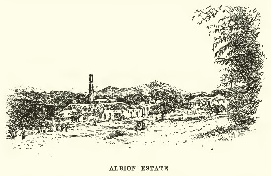 Albion Estate, Cundall, 1915, p. 252